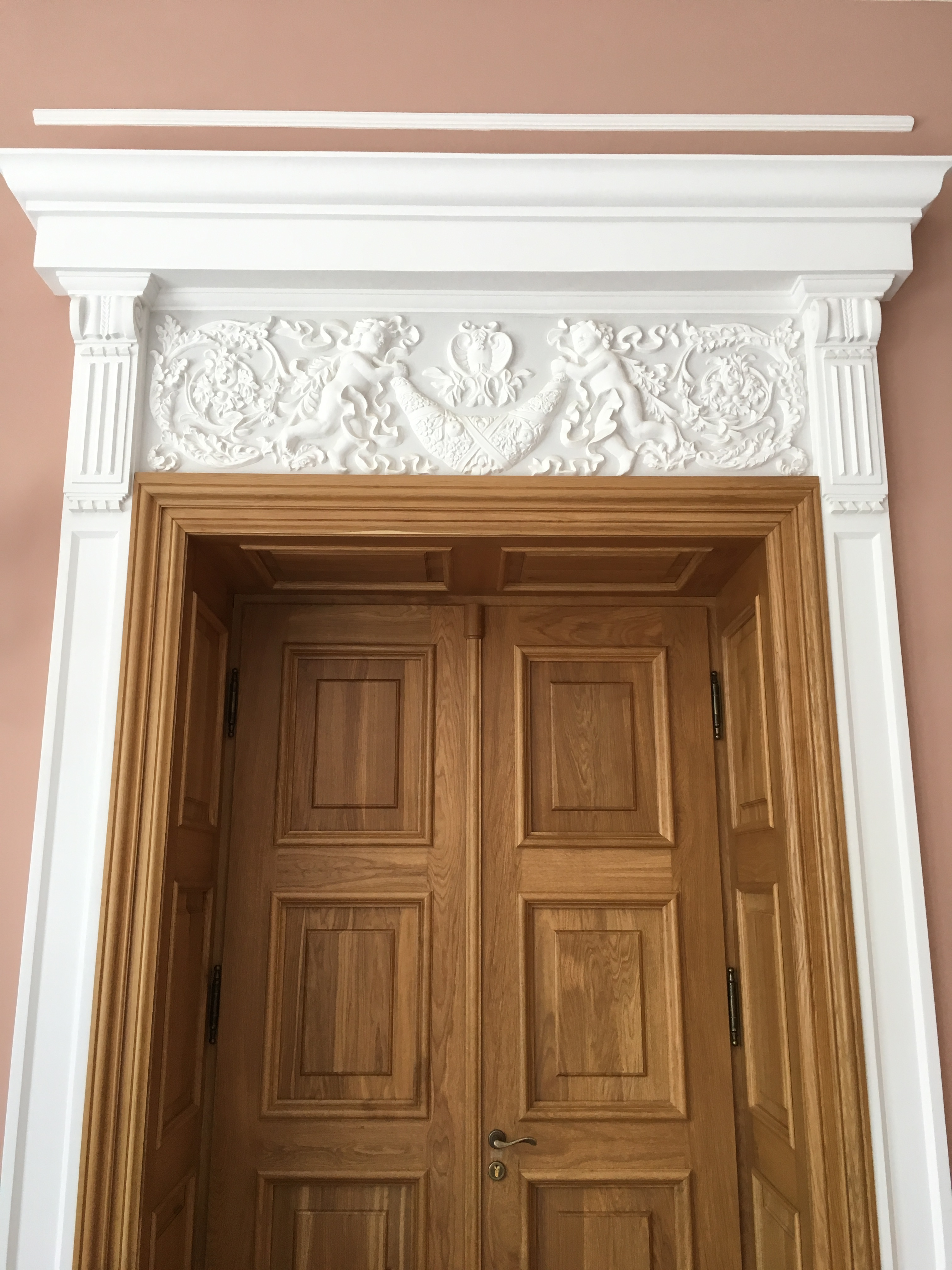 Ornaments of Plungė Manor